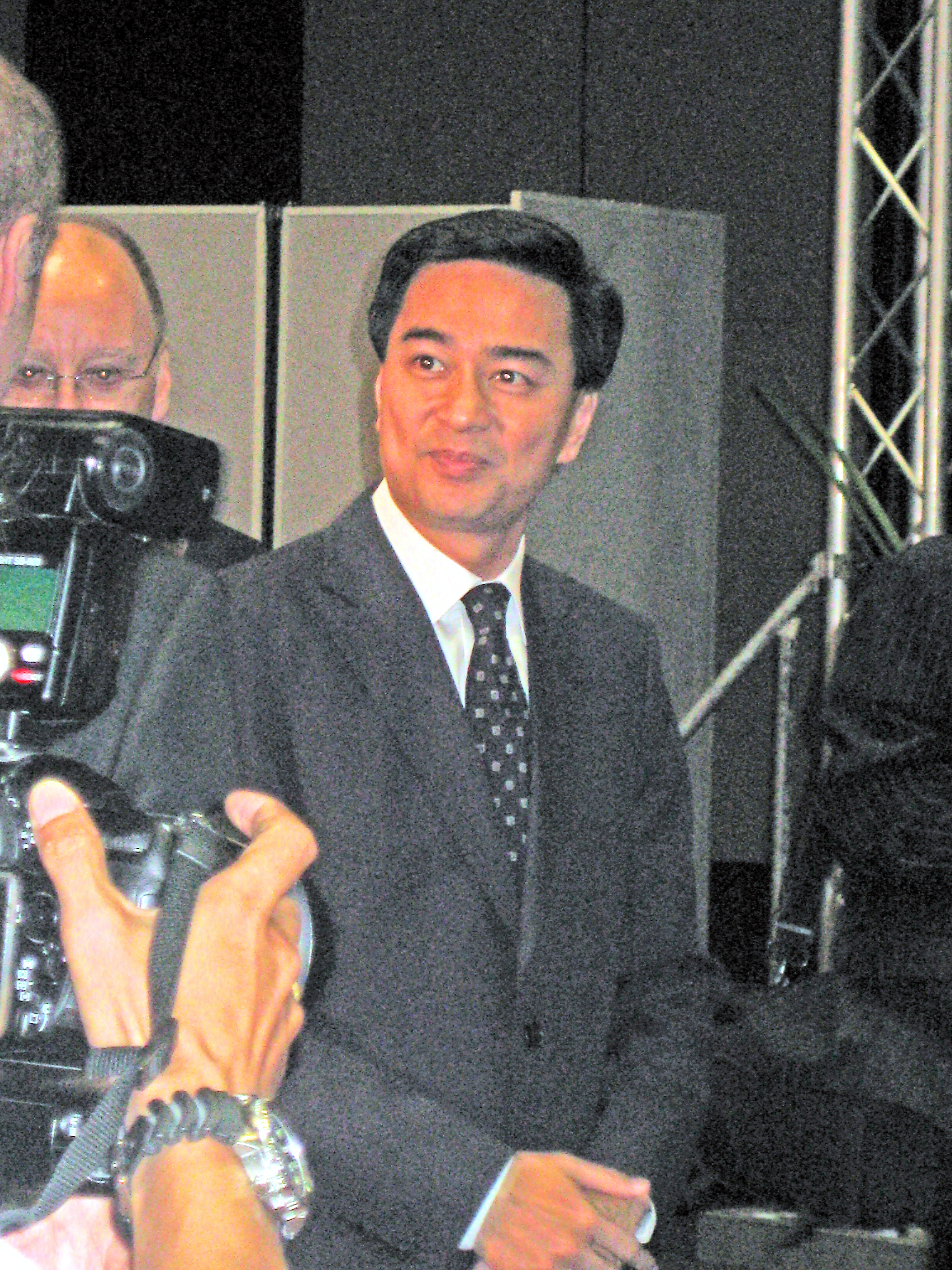 The Thai Prime Minister, Abhisit Vejjajiva, spoke at the Education UK exhibition on Sunday 8 Feb 2009. He spoke about his views on Education for Future Leaders and Global Citizens as well as his own education in the UK from the age of 11. He went to Eton College and graduated from University of Oxford. I sat in the second row! He came across as an articulate speaker and incredibly personable. Not taken with my own camera - borrowed a friend's little ixus